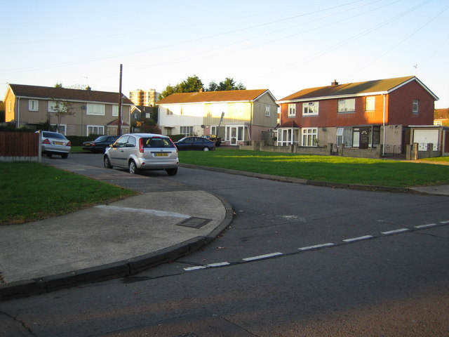 Hainault: Huntsman Road These are post-war semi-detached houses typical of this area of Hainault, surrounding a small green on the north side of Huntsman Road. The centre block of these three probably represents the original style, while the others reflect changes made through the years by the owners.